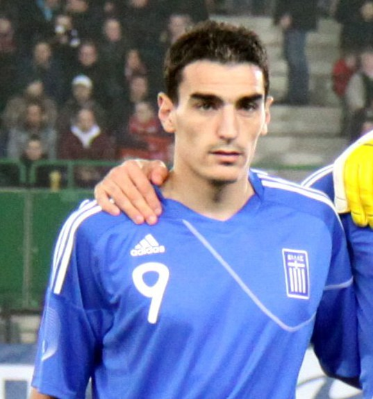 Greece national football team against the Austrian national football team (2:1)